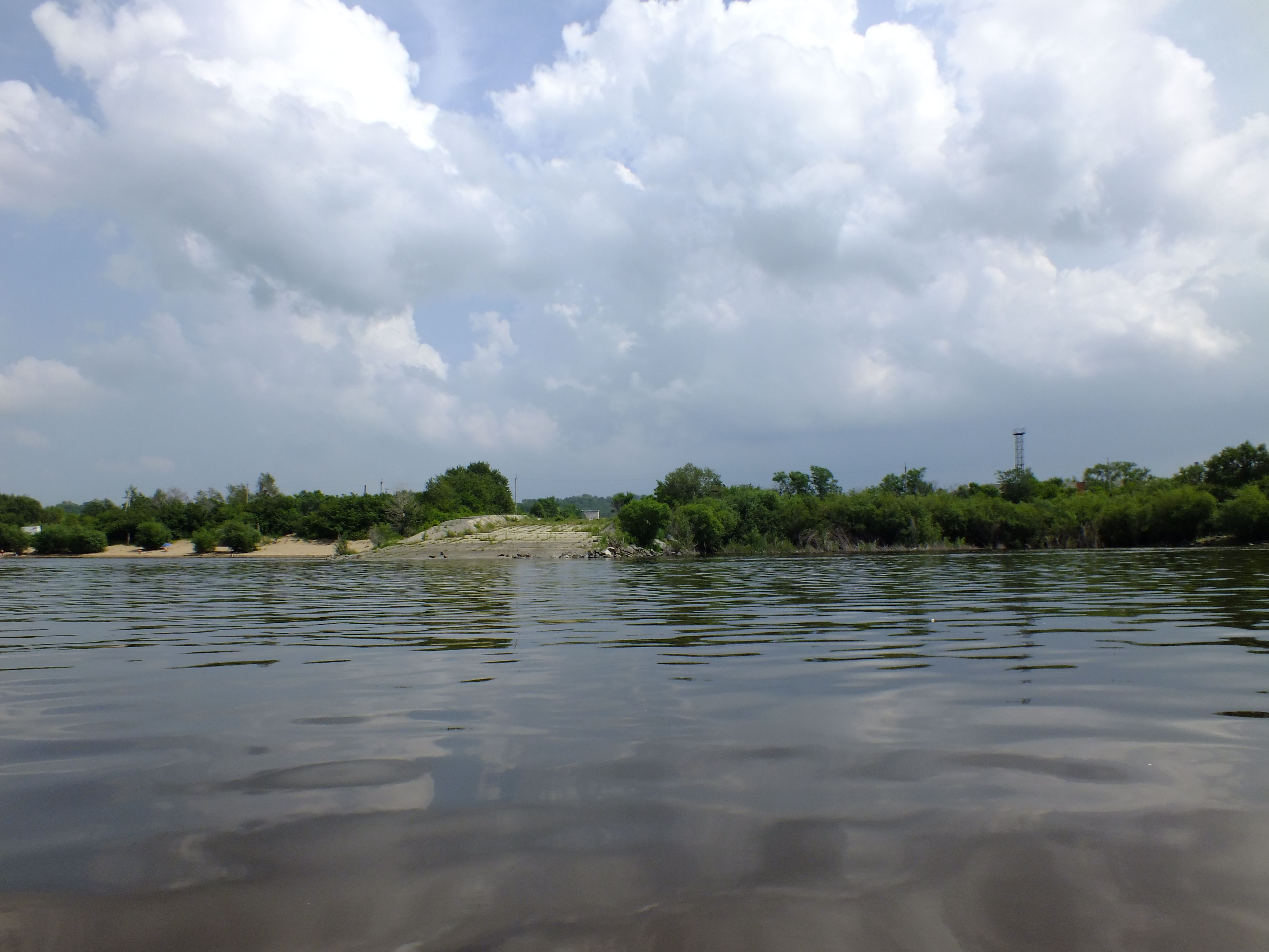 Amur Military Flotilla